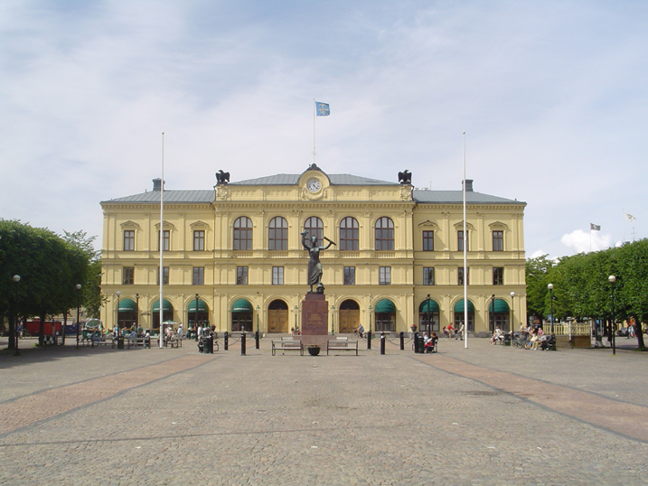 Central City Square of Karlstad, Sweden. Court House and Peace Monument in Background